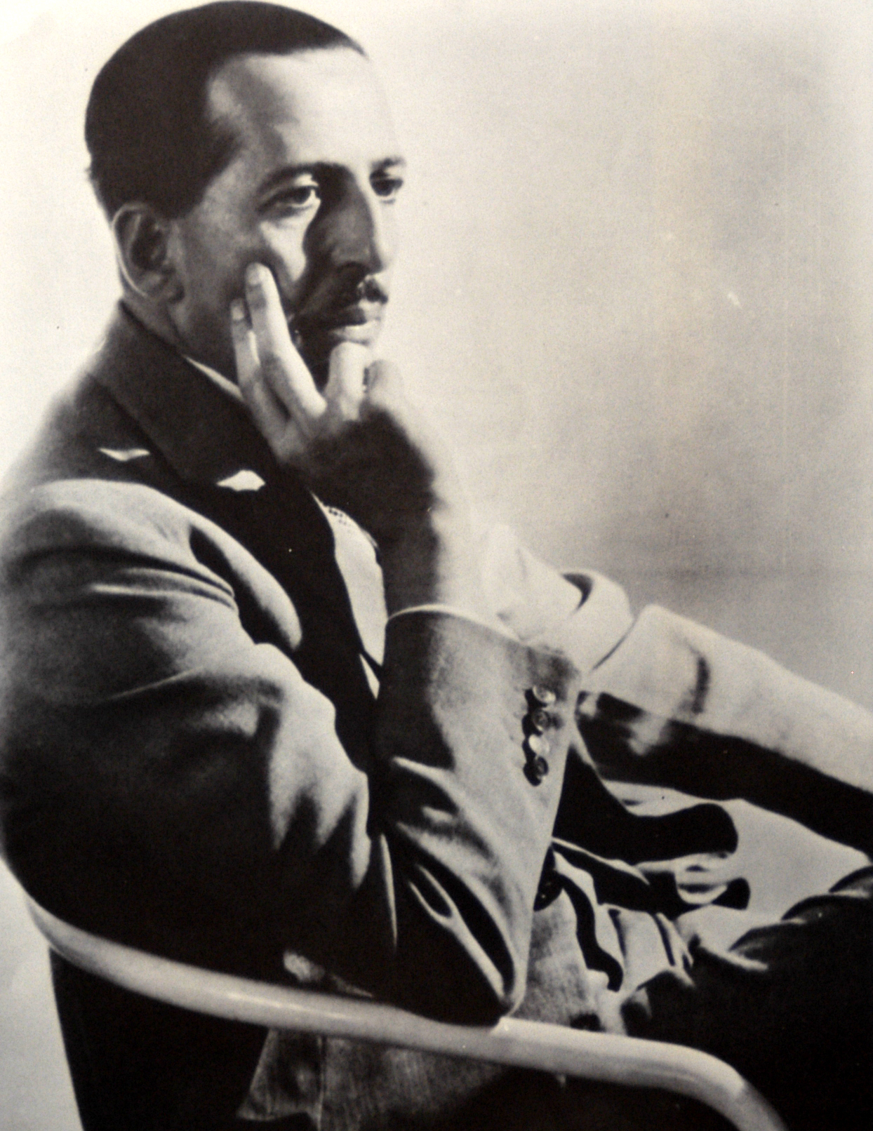 George Antonius author of "The Arab Awakening".